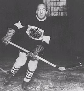 A photo of Howie Morenz while a member of the Chicago Black Hawks, 1934–35.